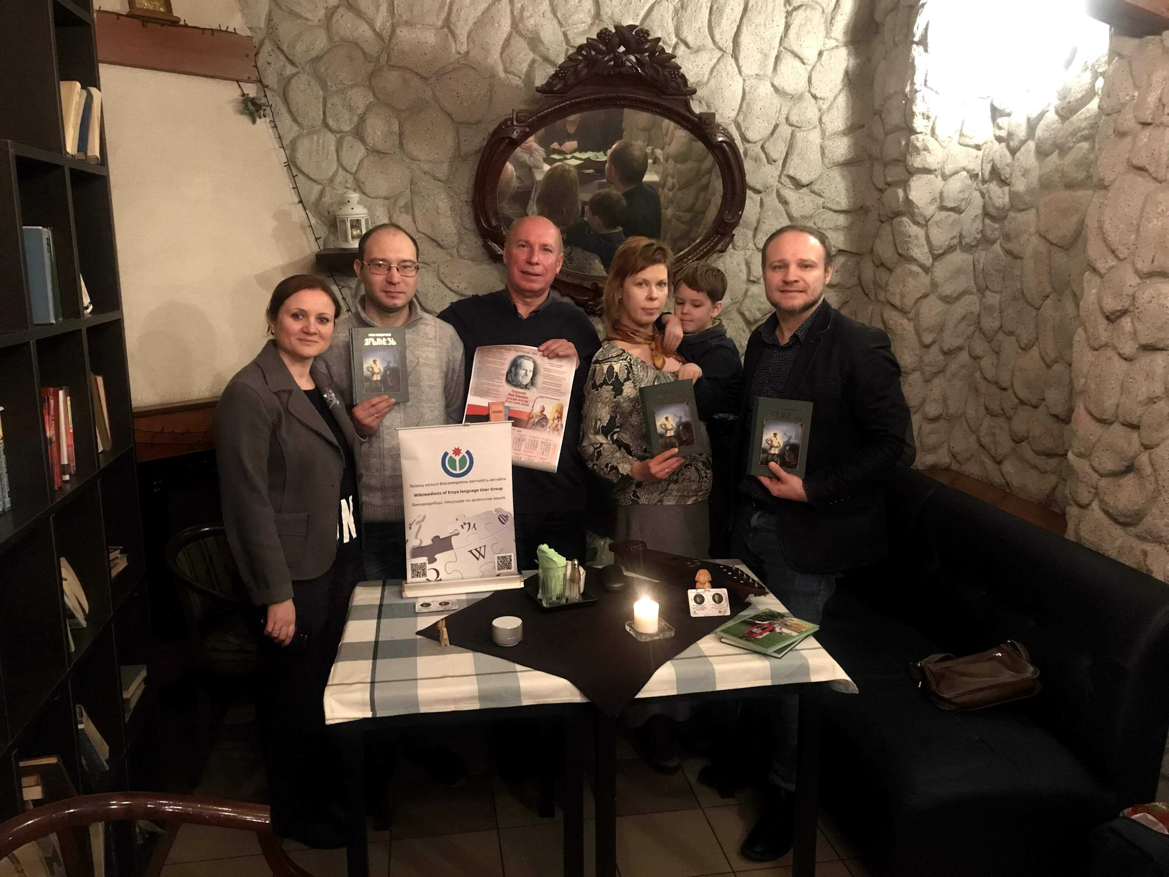 Presentation of the book «Ermez» by Yakov Kuldurkaev, re-issued by the «Rutsya» Foundation for the 125-th anniversary of the author and the 90-th anniversary of the first edition. St.-Petersburg.